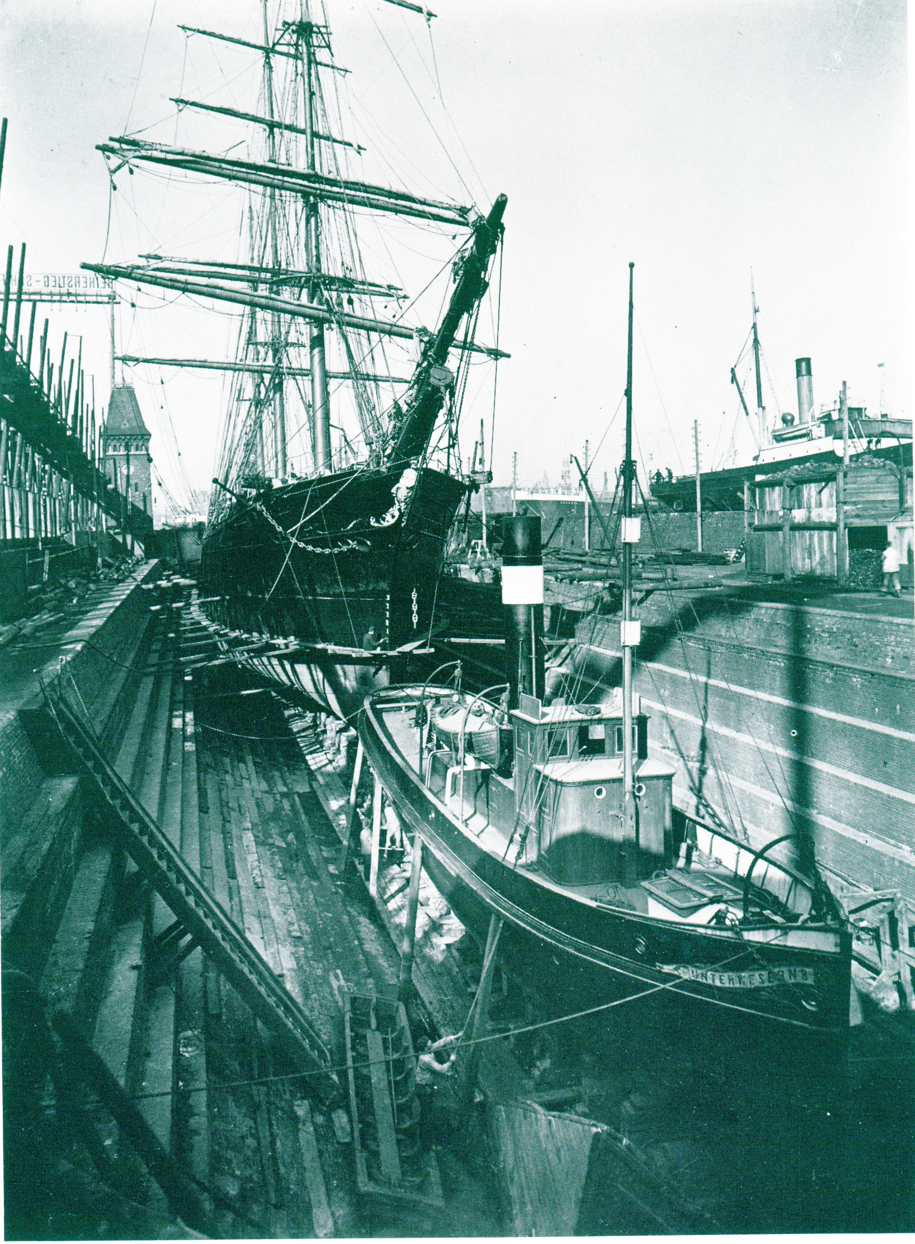 Dry dock of Reiherstiegwerft, Hamburg, Germany in 1906